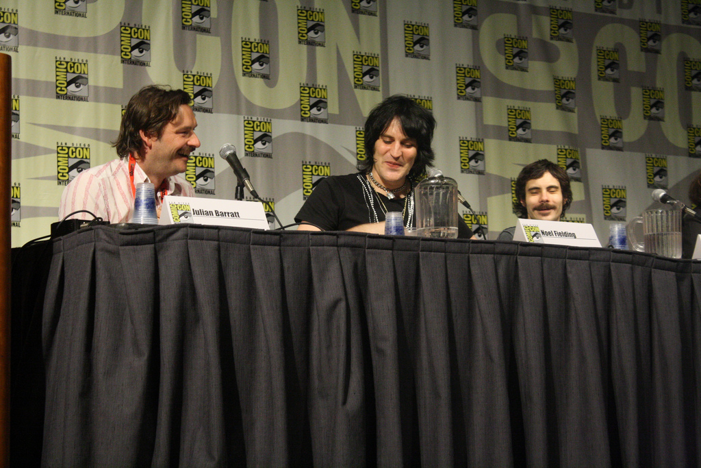 The Mighty Boosh at Comic-Con 2009, from left to right: Julian Barrat, Noel Fielding and Michael Fielding.